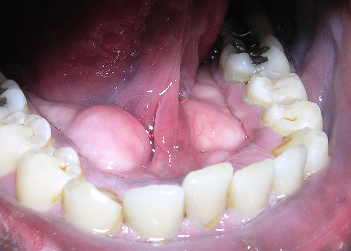 Photograph taken of patient, who will remain anonymous, treated at the University of Tennessee Health Science Center: College of Dentistry in Memphis, Tennessee. The mandibular tori on this patient is larger than normal, and a great example of this anatomic structure Source: Photo taken by Dozenist